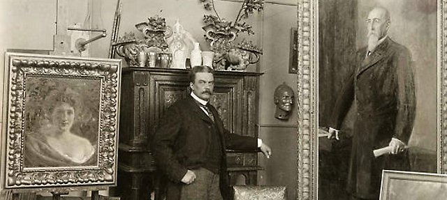 Painter Albert Edelfelt in his studio in Paris ca. 1900 [most probably 147 Avenue de Villiers].